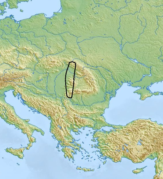 Map of the Bodrogkeresztúr culture, based on a map printed at page 75 in Encyclopedia of Indo-European Culture, which was edited by J. P. Mallory and Douglas Q. Adams, and published by Taylor & Francis in 1997.